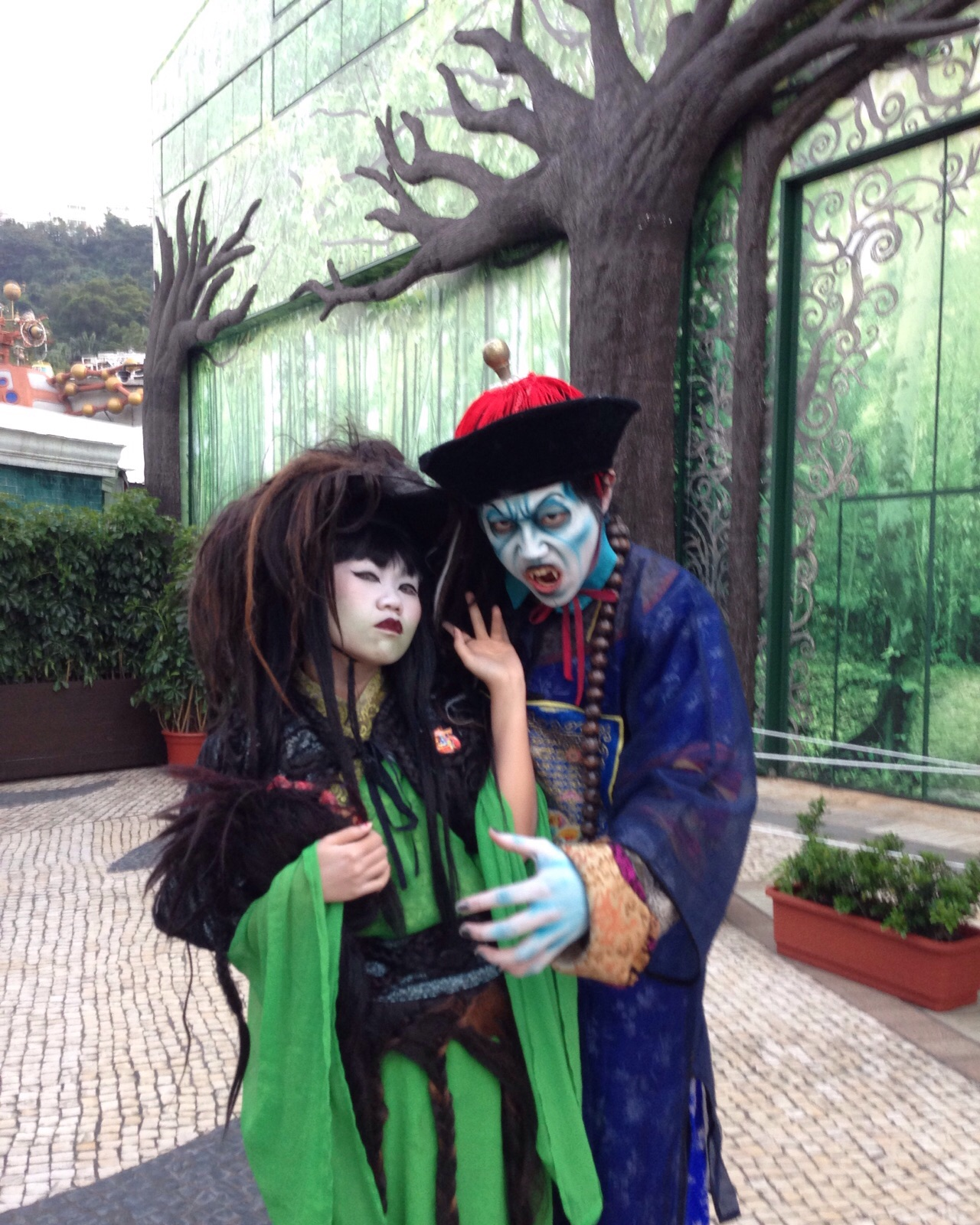 They are wearing halloween costumes